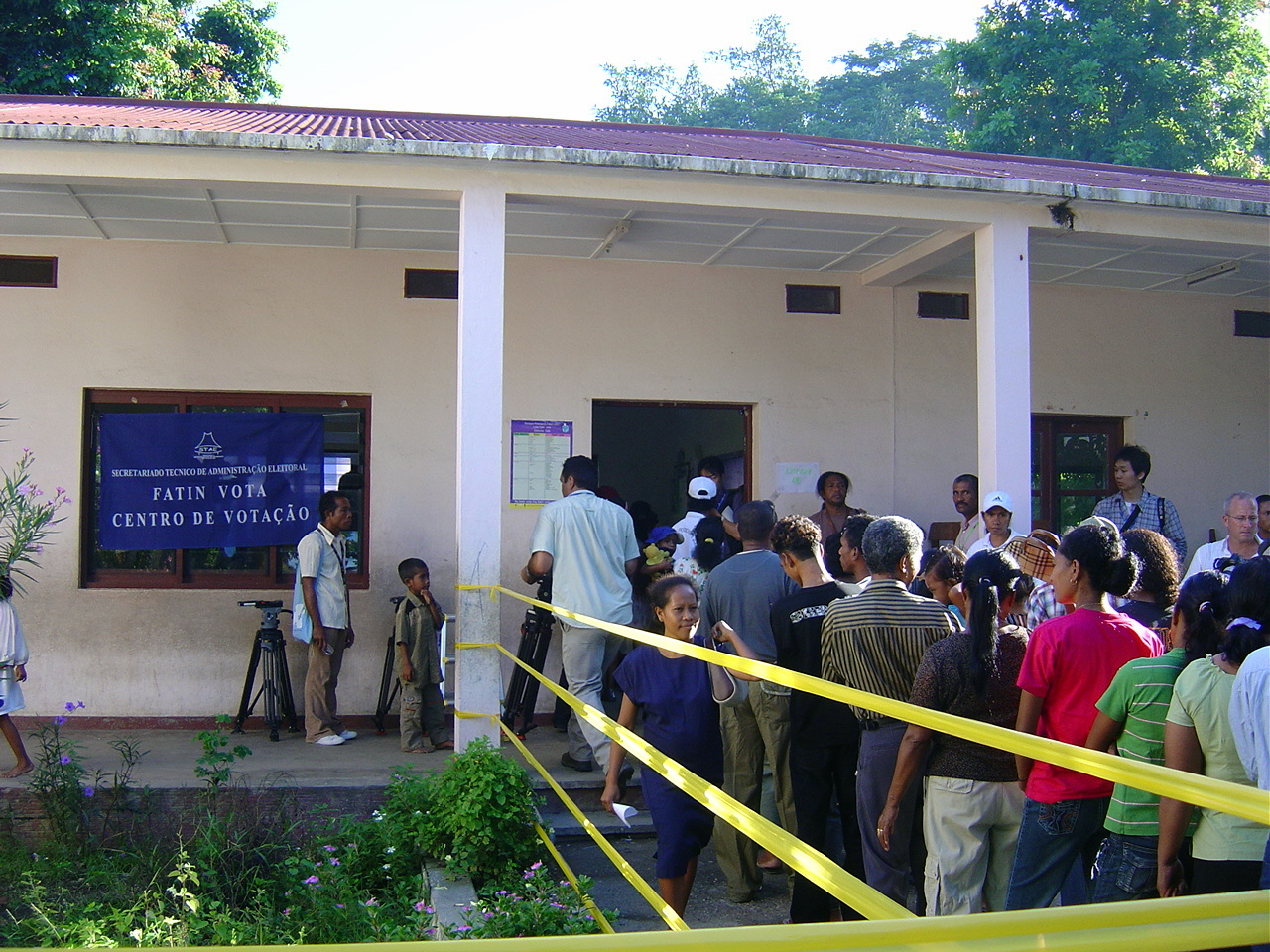 Presidental election 2007